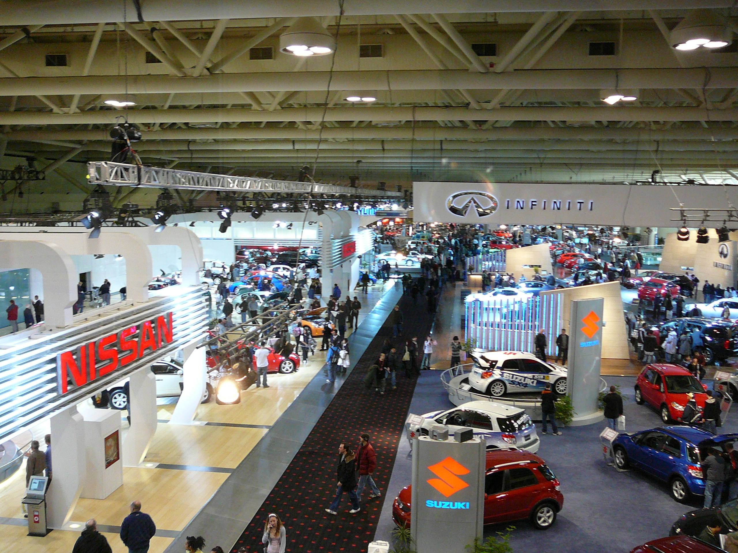 The Canadian International Auto Show 2007 view from the top of the 300 level in the Metro Toronto Convention Centre. Showing Infiniti, Nissan, and Suzuki showcases in the foreground.